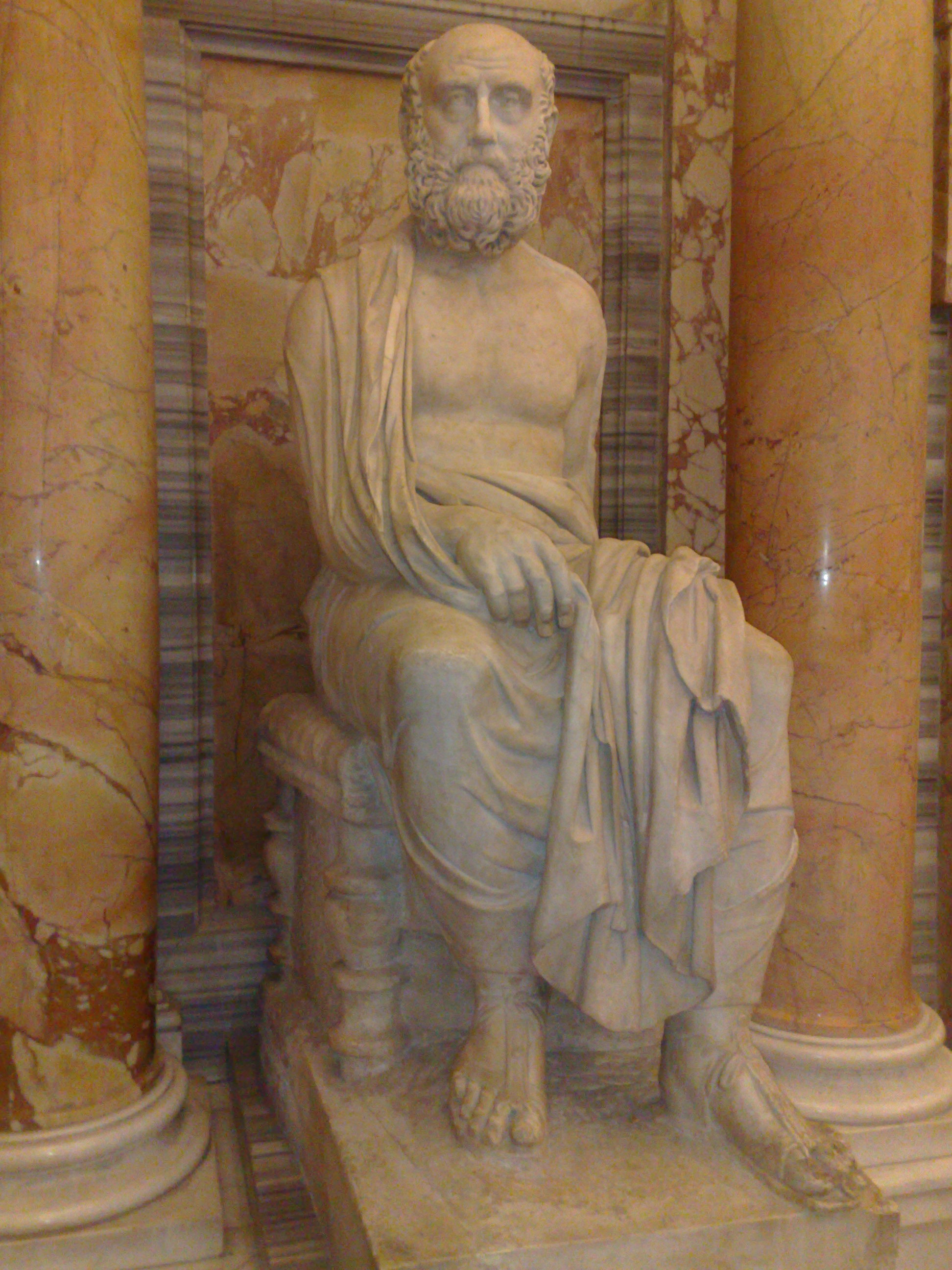 Sculpture of Aristides in Vatican museums. Photo was made by me